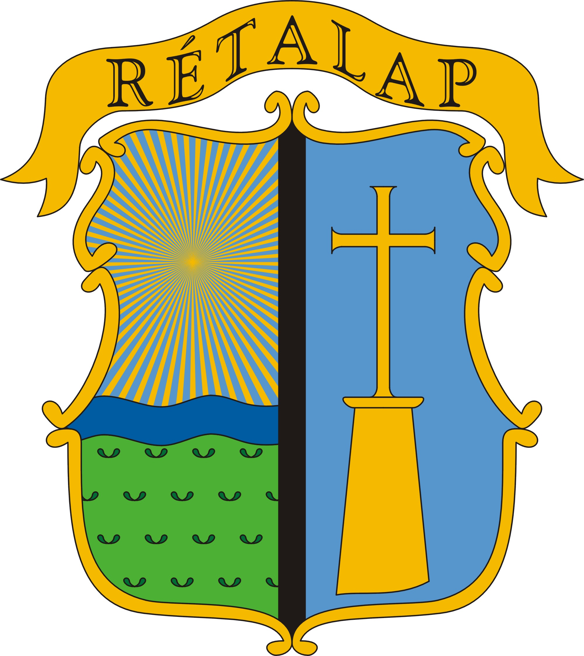 Coat of arms of Rétalap, Hungary